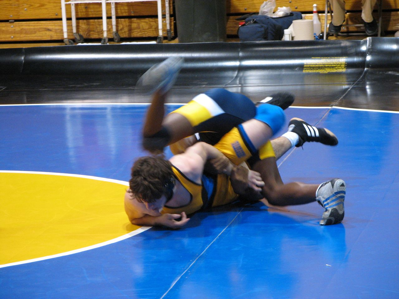 Two high school students wrestling (collegiate, scholastic, or folkstyle) in the United States. Originally uploaded by Wikiman86 on the English Wikipedia project at